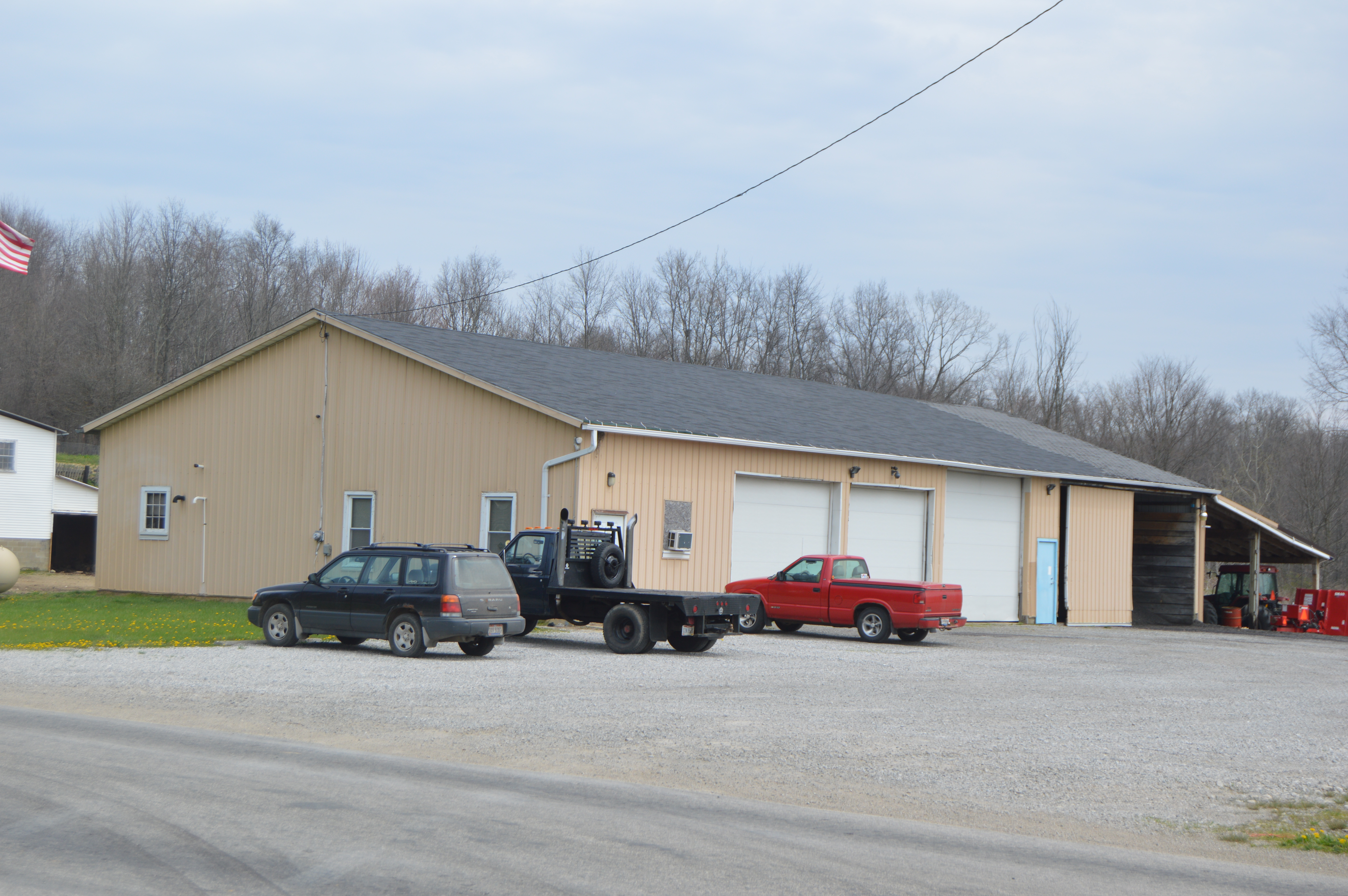 Front and western end of the Jackson Township hall, located at the junction of Roads 800 and 175 east of Polk in Jackson Township, Ashland County, Ohio, United States.